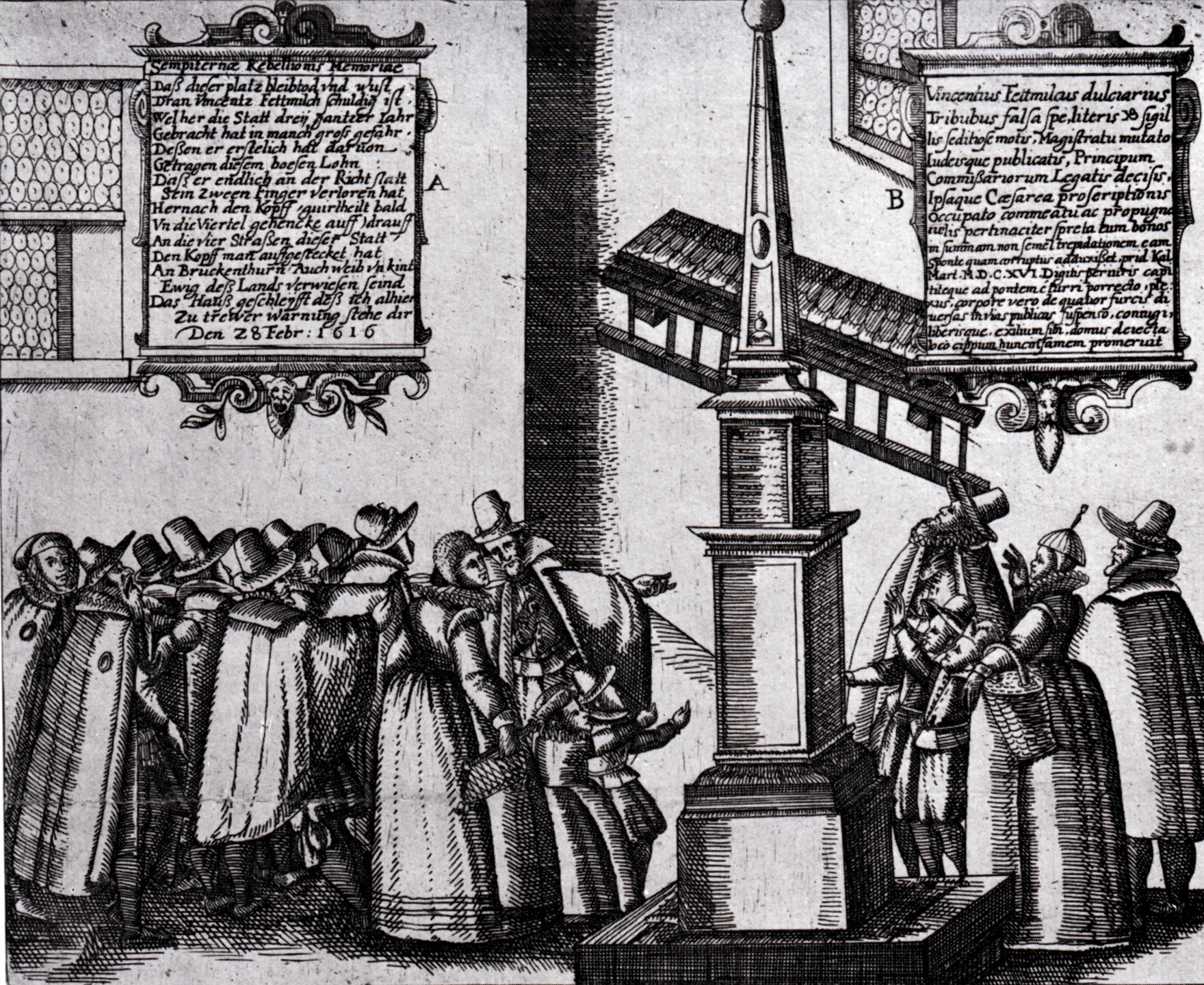 Fettmilch Riot: Pillar of shame in the Töngesgasse in Frankfurt where Vincent Fettmilch's house had been before.